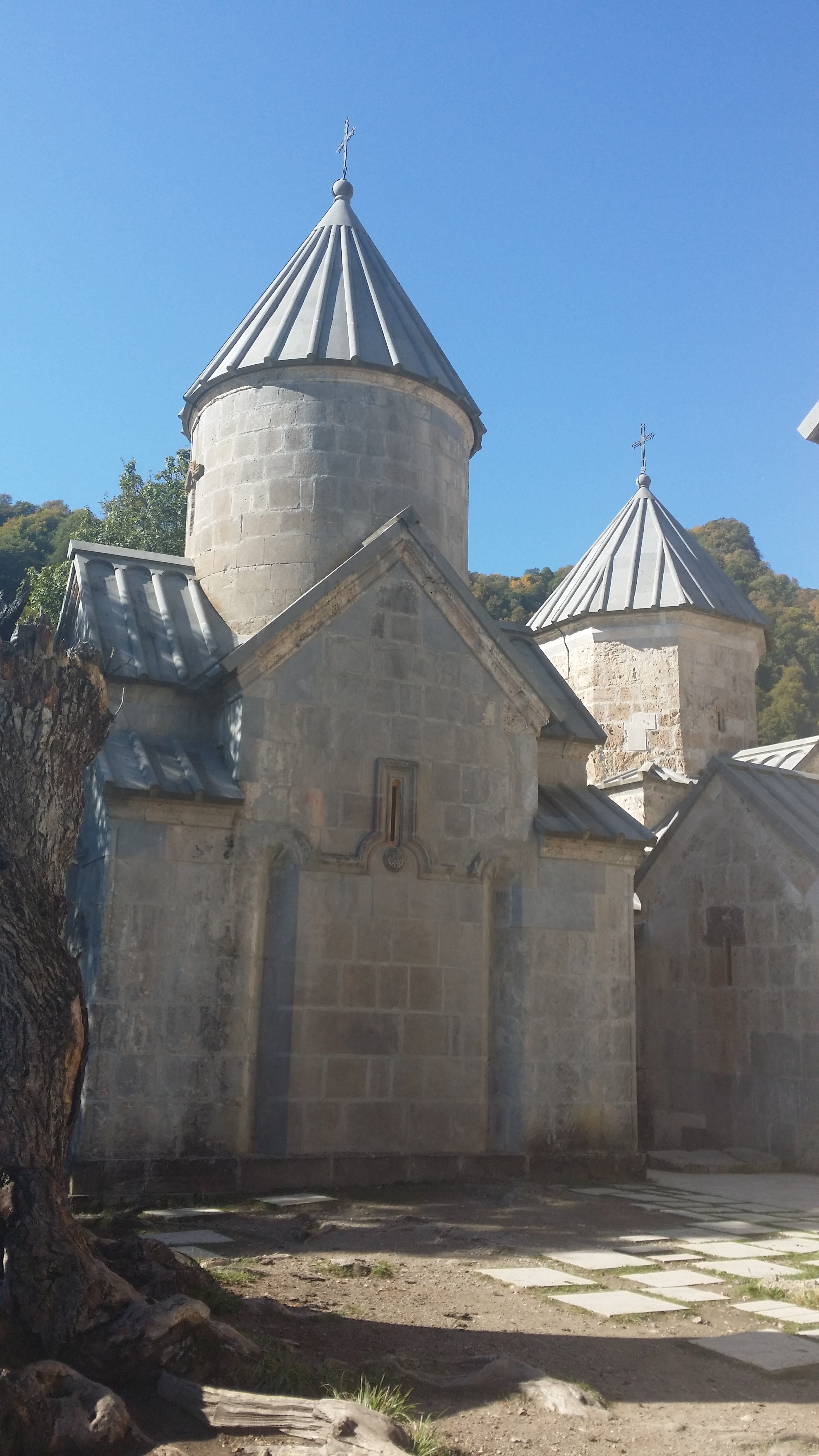 Hagharzin monastery